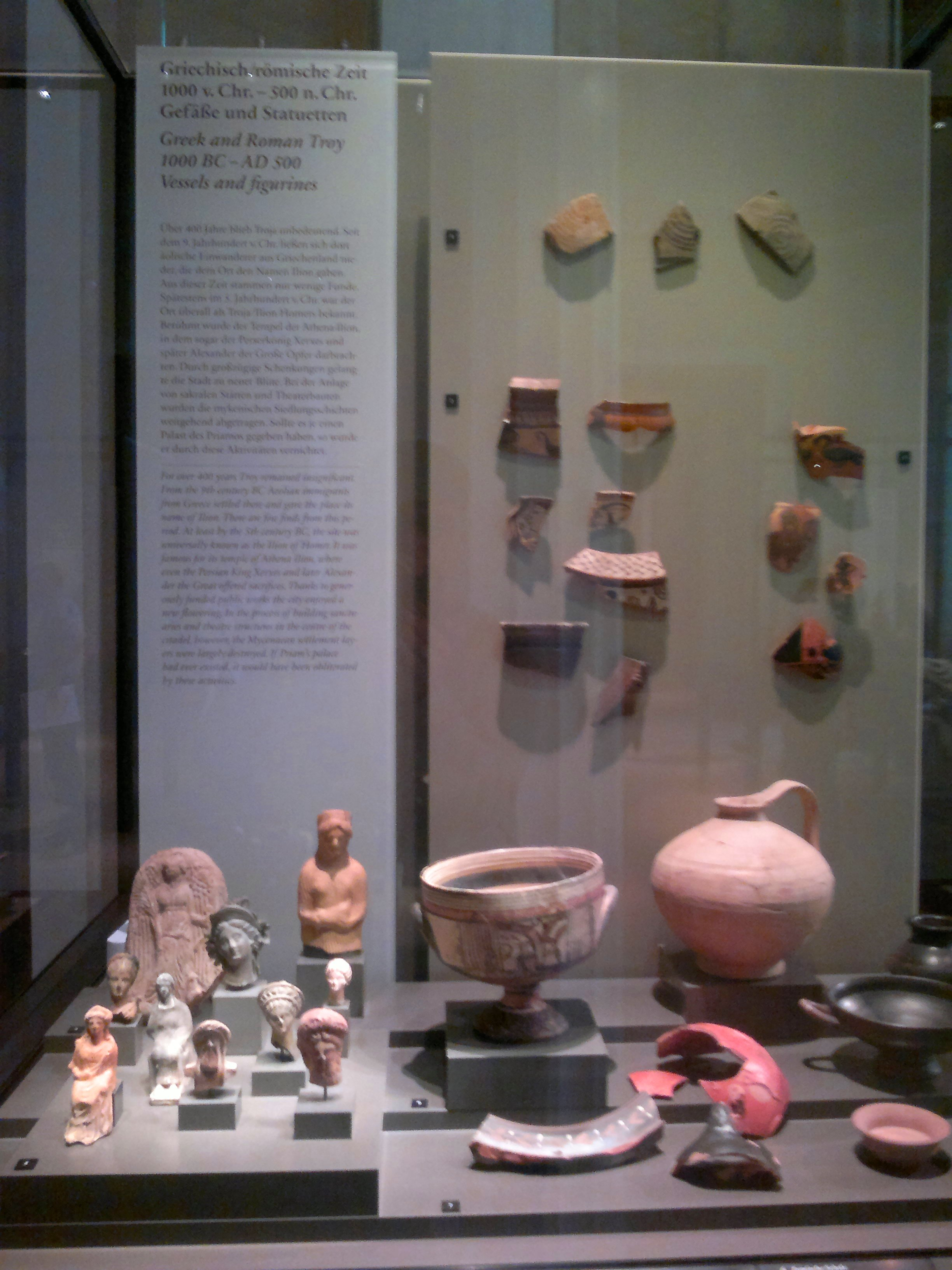 Vessels and figurines from Troy. 1000 BC - 500 AD. Neues Museum, Berlin.